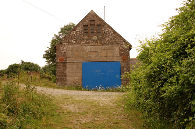 Old lifeboathouse at Fethard. The lifeboat station at Fethard was opened in 1886 and closed in 1914. It was re-established in 1996 and the old boathouse was brought back into service until a new station was provided in 2003. Fethard operates a “D” class boat which can be launched down the slipway at the harbour or at other locations depending on circumstances.